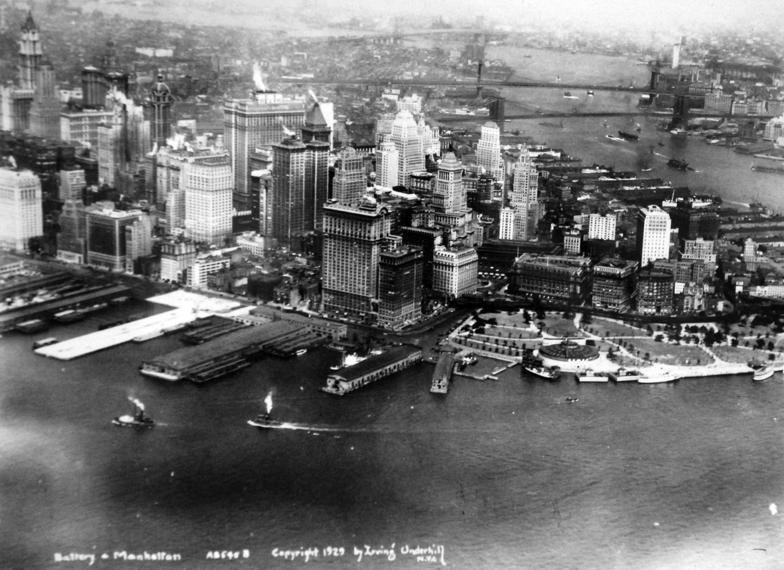 Lot 12482-6: Battery Park and New York Skyline, New York City, New York. Photographed by Irving Underhill, 1929. Courtesy of the Library of Congress. Photographed through Mylar sleeve. (2016/03/04).